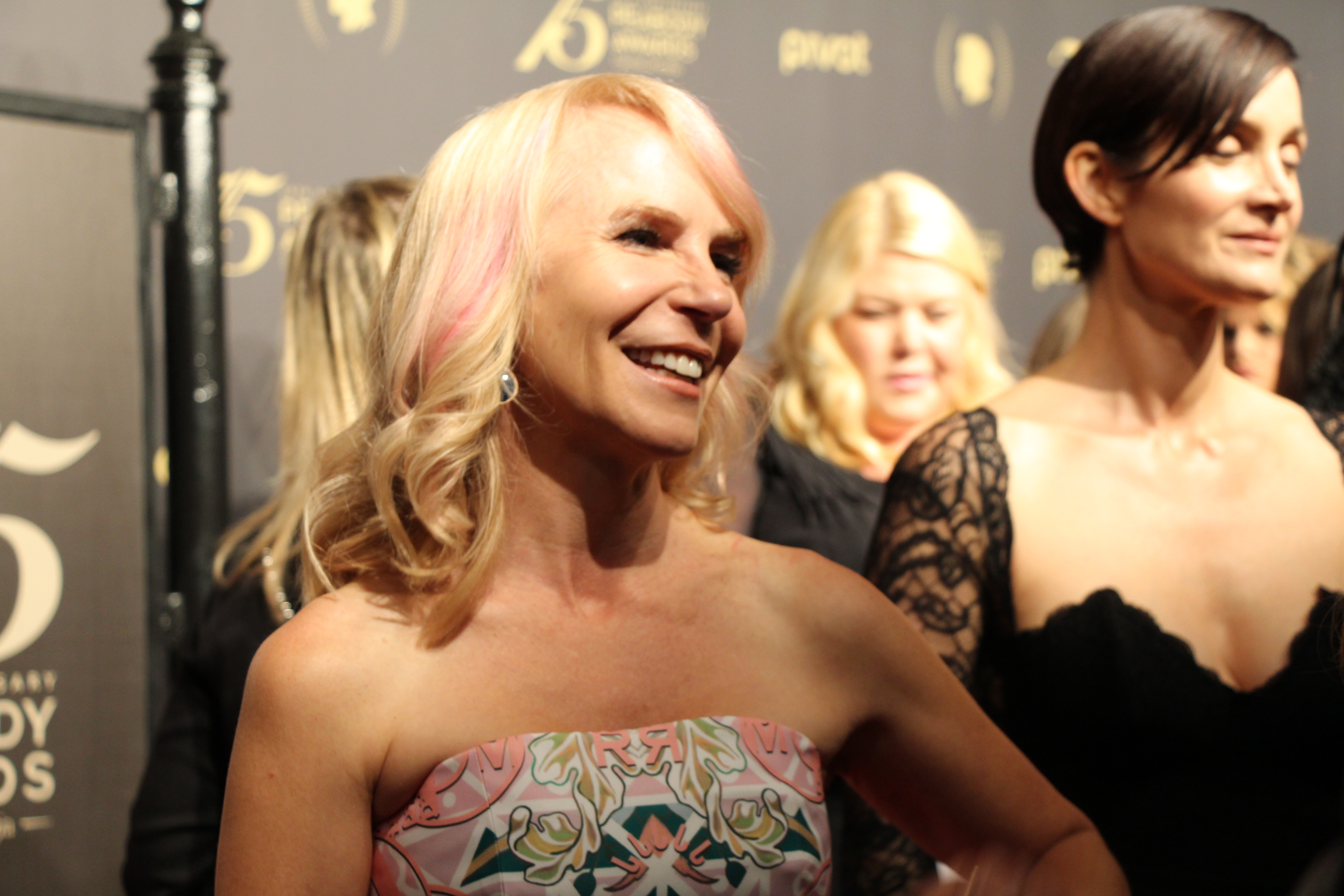 This photo includes Marti Noxon, Executive Producer of "UnREAL." (Photo/Sarah E. Freeman/Grady College, in New York City, Georgia, on Saturday, May 21, 2016)